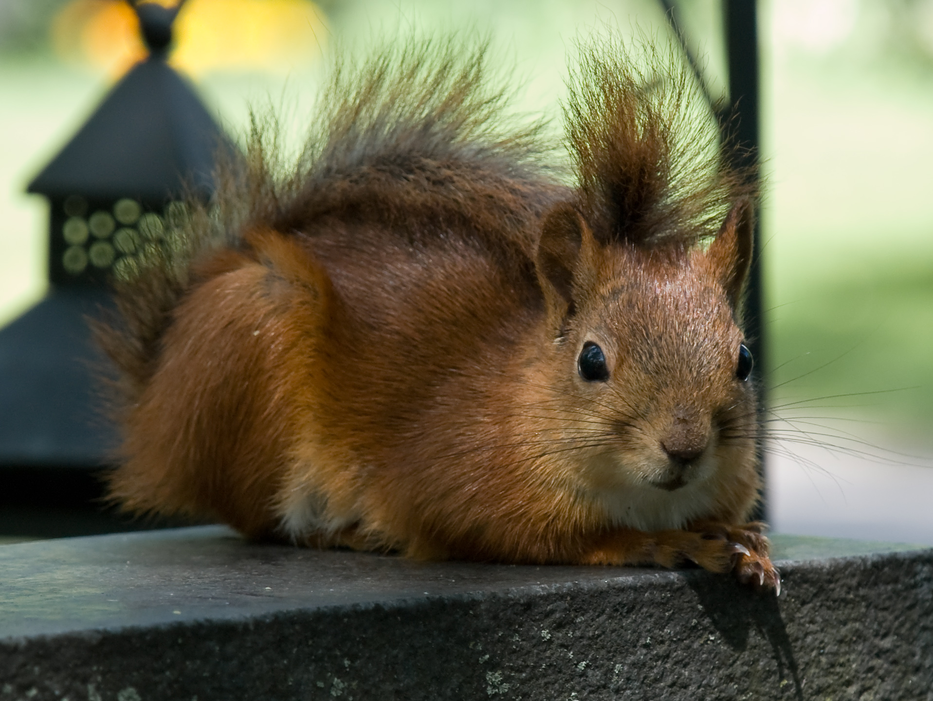 Red squirrel (Sciurus vulgaris) on a tombstone in Turku cemetery.